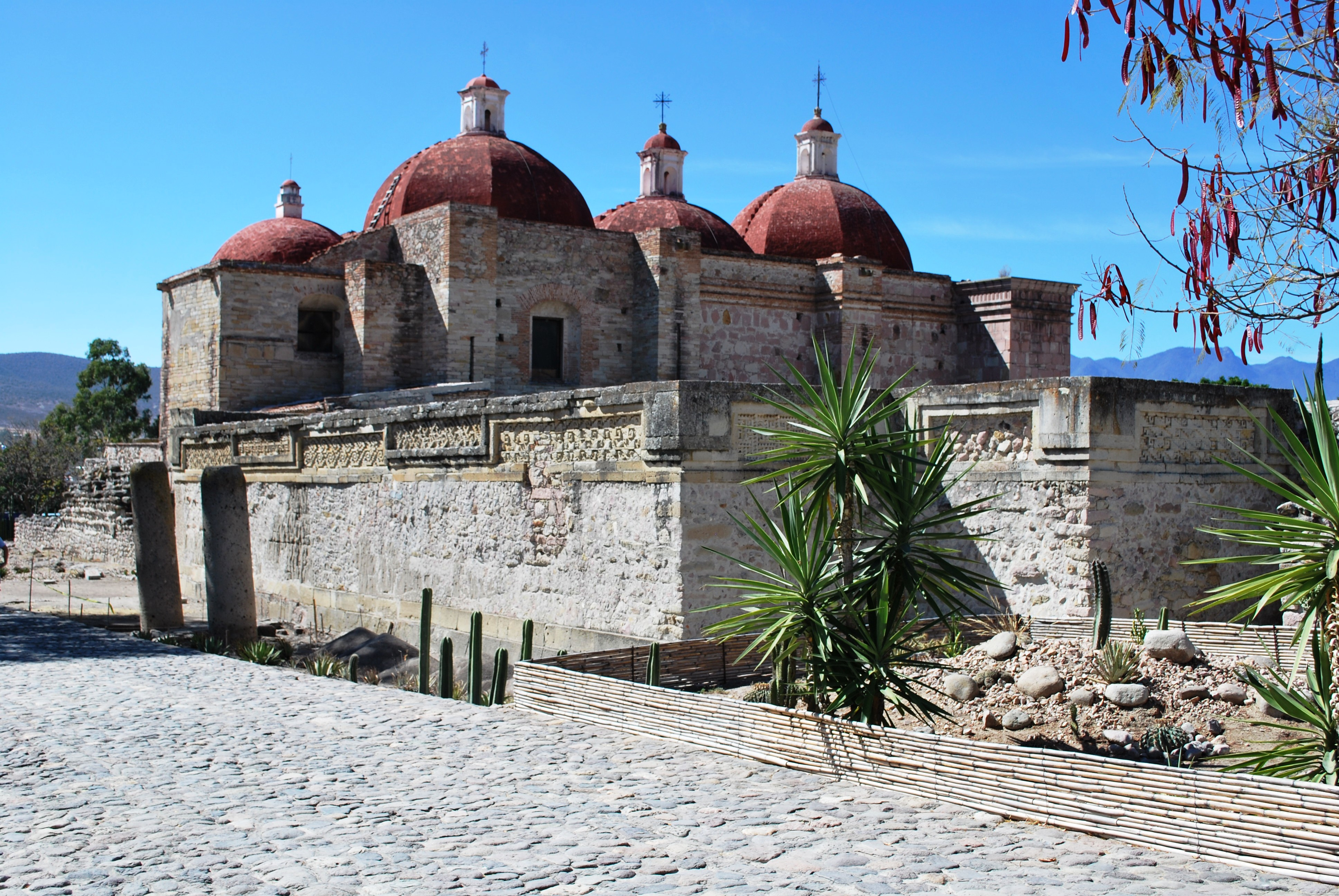 View of the Church of San Pablo and the remains of the North Group of the archeological site of Mitla, Oaxaca